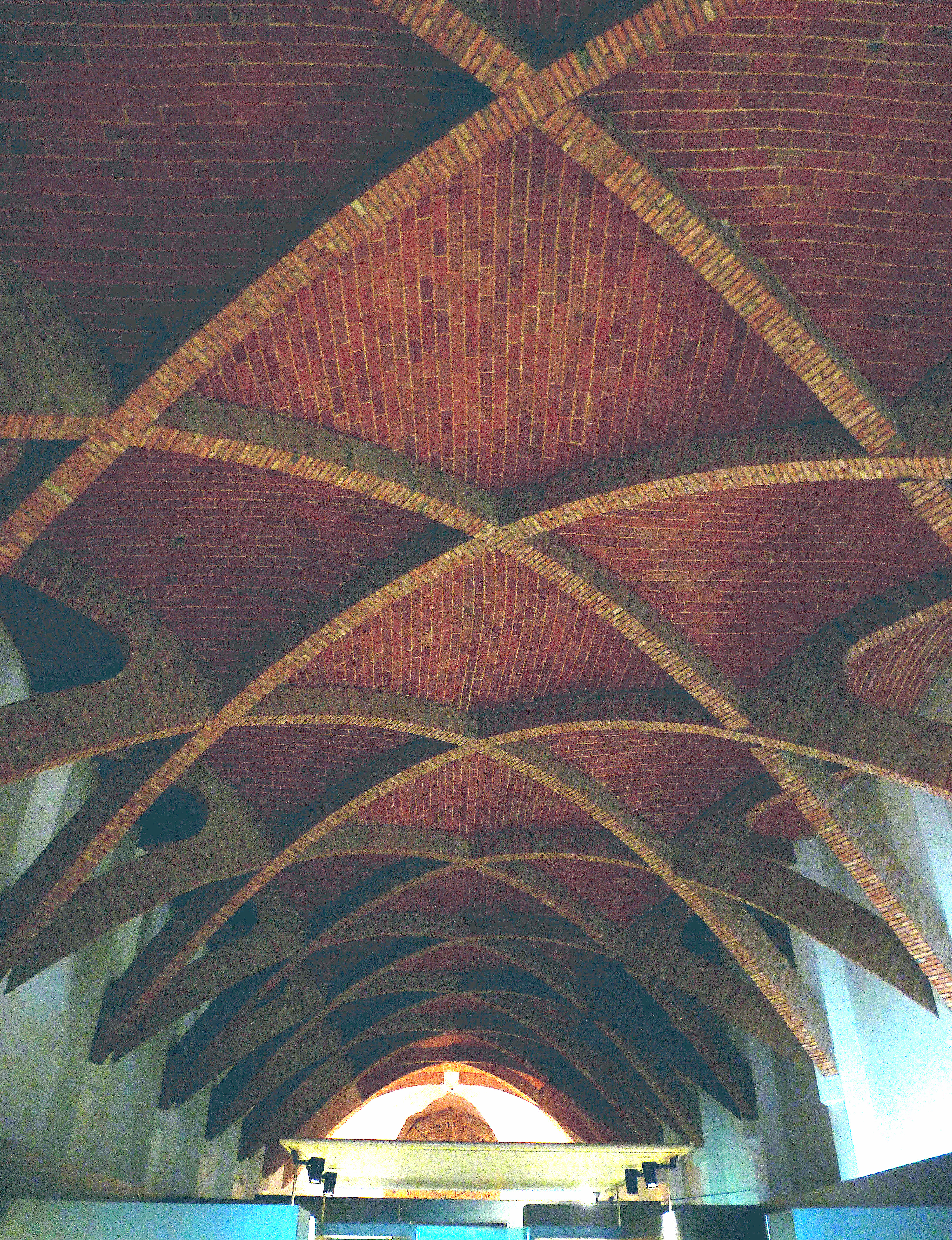 Vault of a room of the Museum of the Americas, Madrid, Spain.